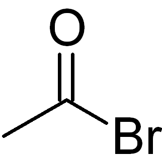 Acetyl bromide